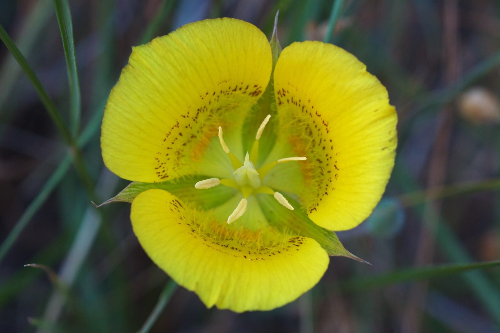 Photographed on Mt. Tamalpais, Marin County, California